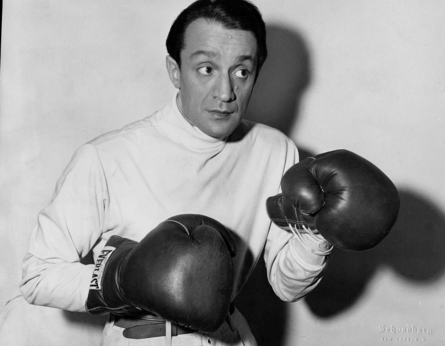 Photo of Yiddish actor-comedian Leo Fuchs.